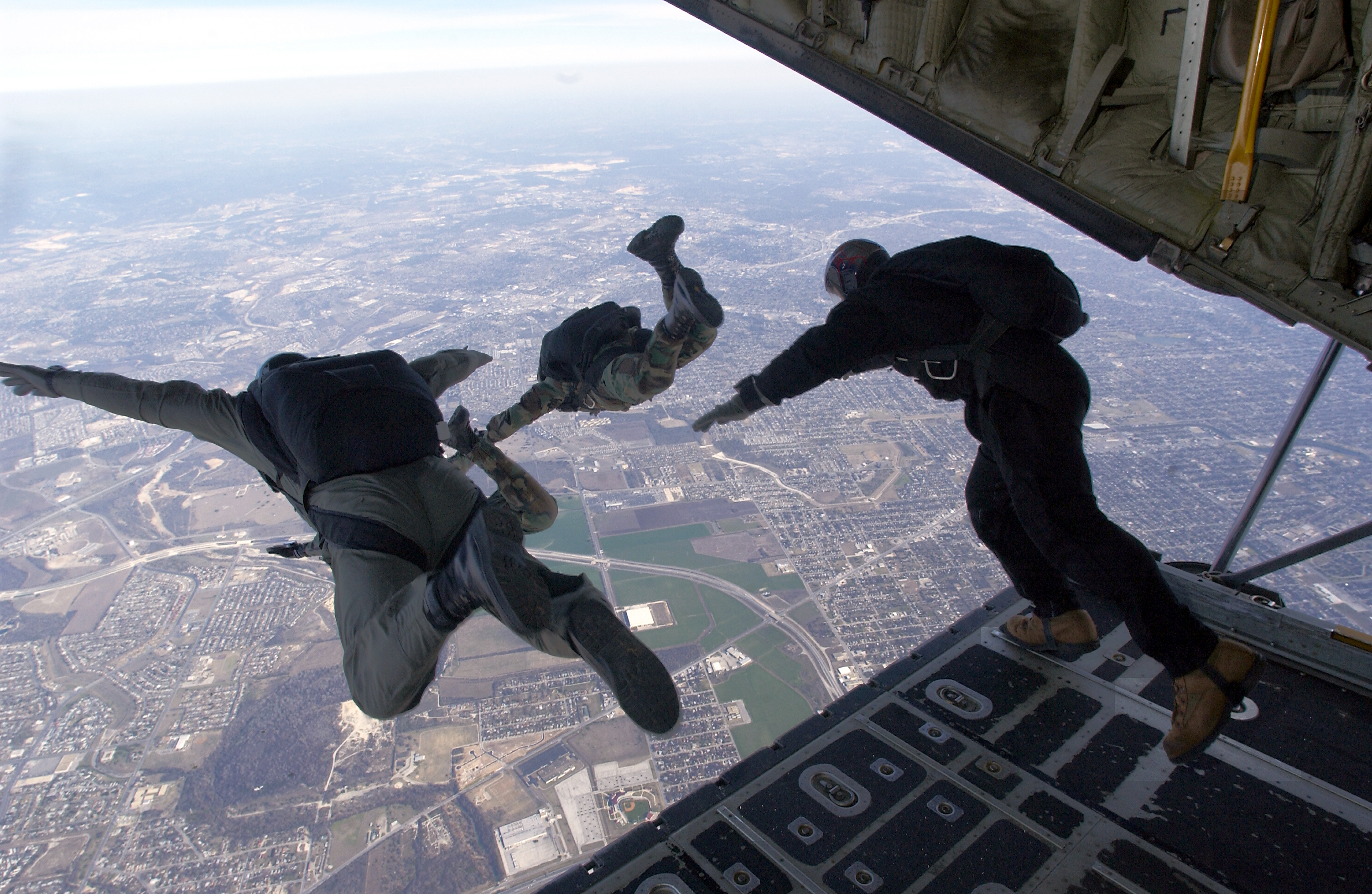 OVER EGLIN AFB, Florida -- High-altitude, low-opening parachute jump onto the base on Jul 2010. The proficiency training exercise had EOD students exiting the aircraft at 9,500 feet, traveling at 130 knots, and landing on a precise target at the drop zone.